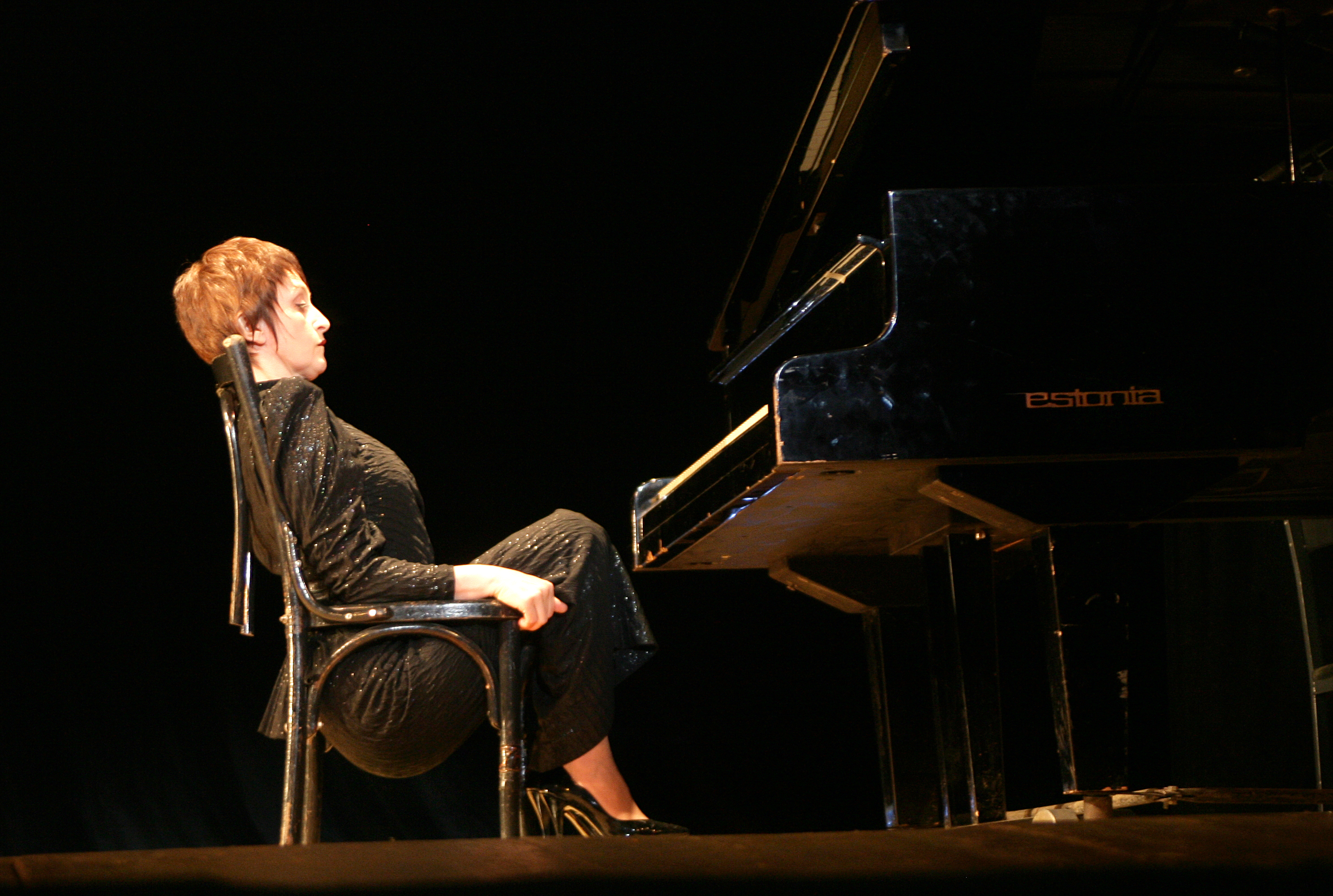 spectacle "picnic on the roadside" by theater "Unison"